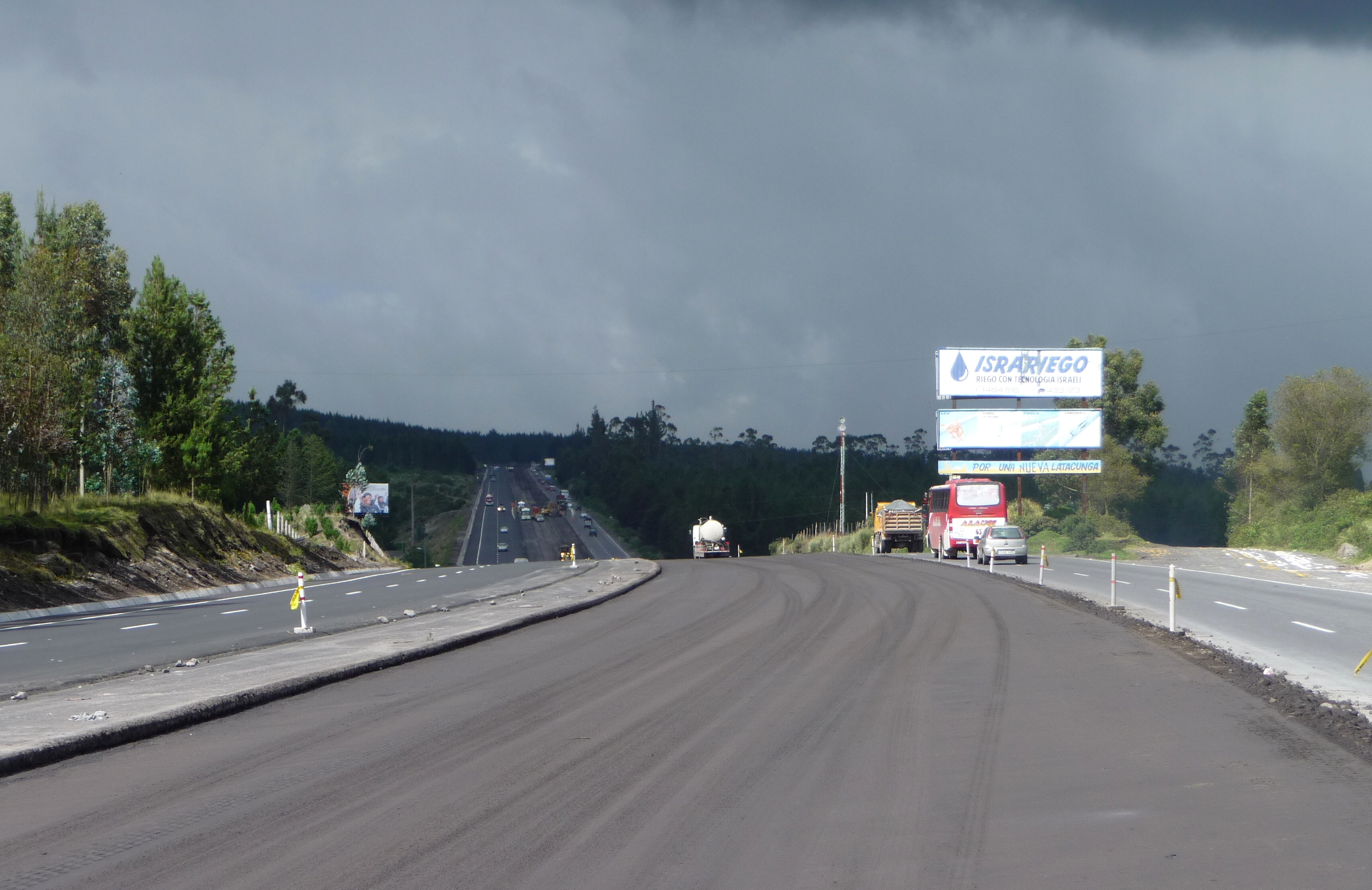 The Pan-American Highway near Latacunga (Cotopaxi, Ecuador).